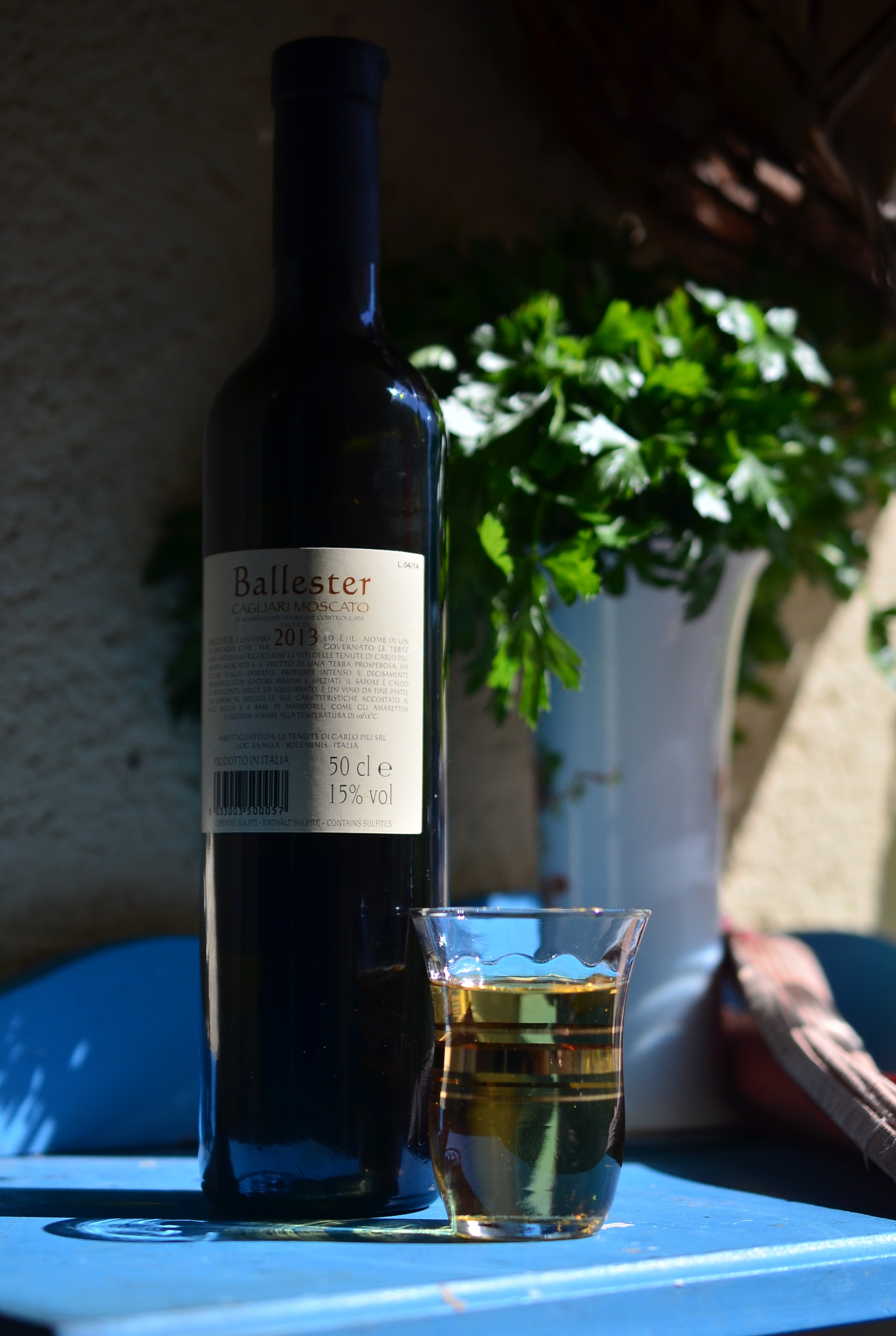 Bottle and glass of Cagliari Moscato